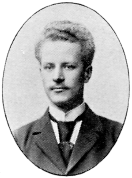 Image scanned from the book "Svenskt Porträttgalleri XX - Arkitekter, Bildhuggare, Målare m.fl. " ("Swedish Portrait Gallery XX - Architects, Sculptors, Painters, ") published 1901